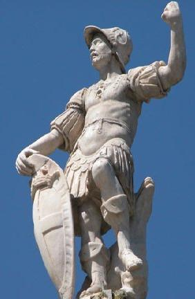 Fountain of Orion (1553) in Messina, Italy, by Giovanni Angelo Montorsoli.